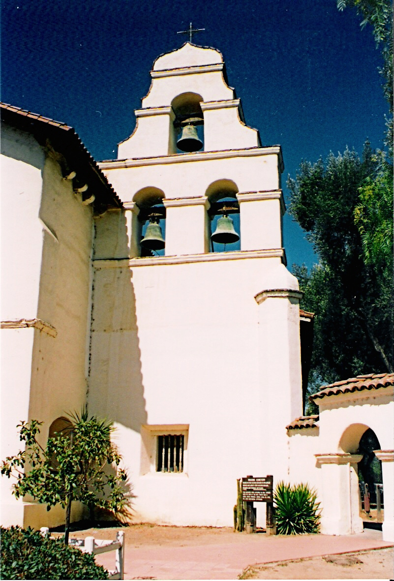 The campanario (bell wall) at Mission San Juan Bautista. Photograph by Robert A. Estremo, copyright 1986.